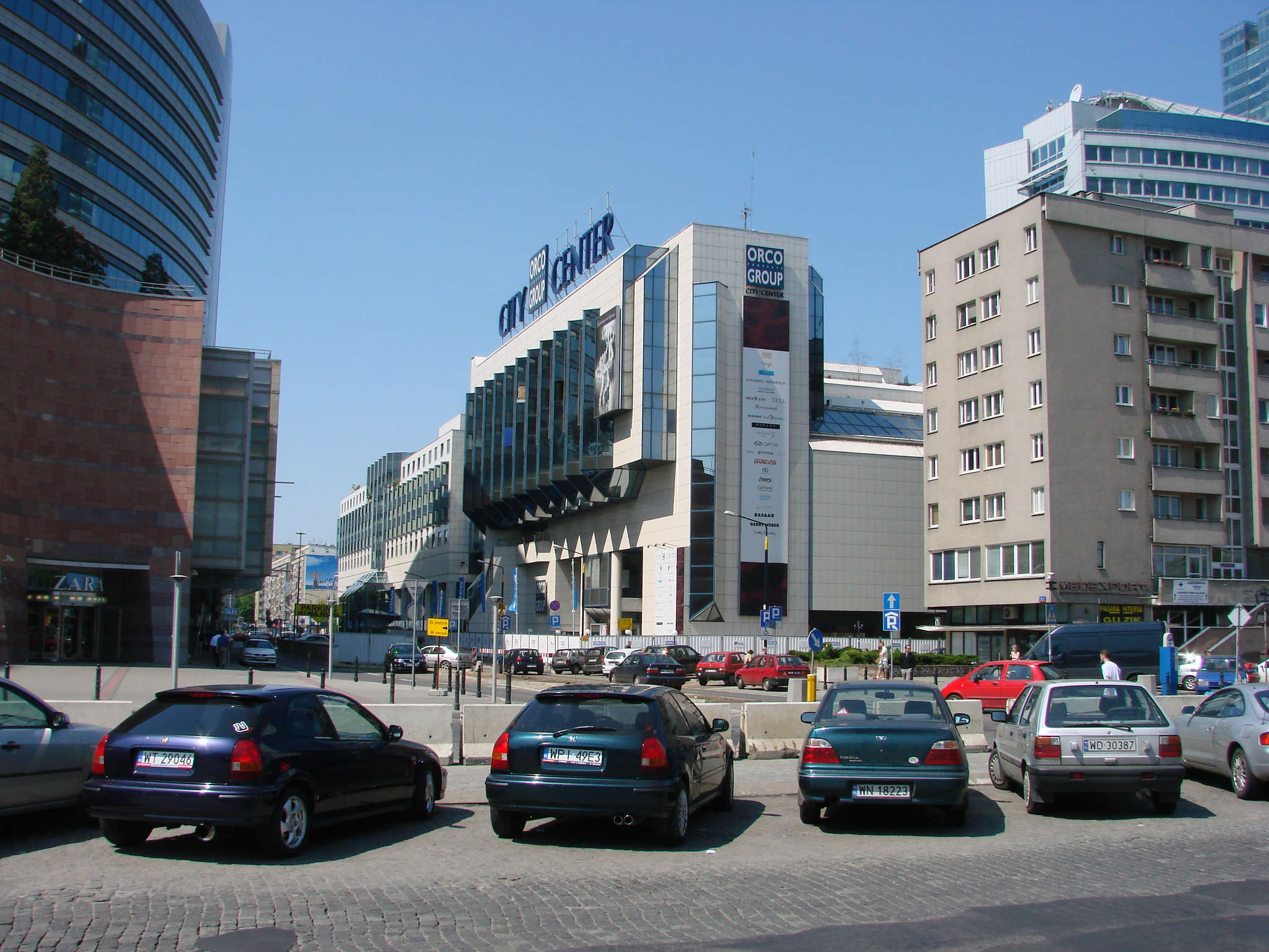 Emilii Plater Street in Warsaw